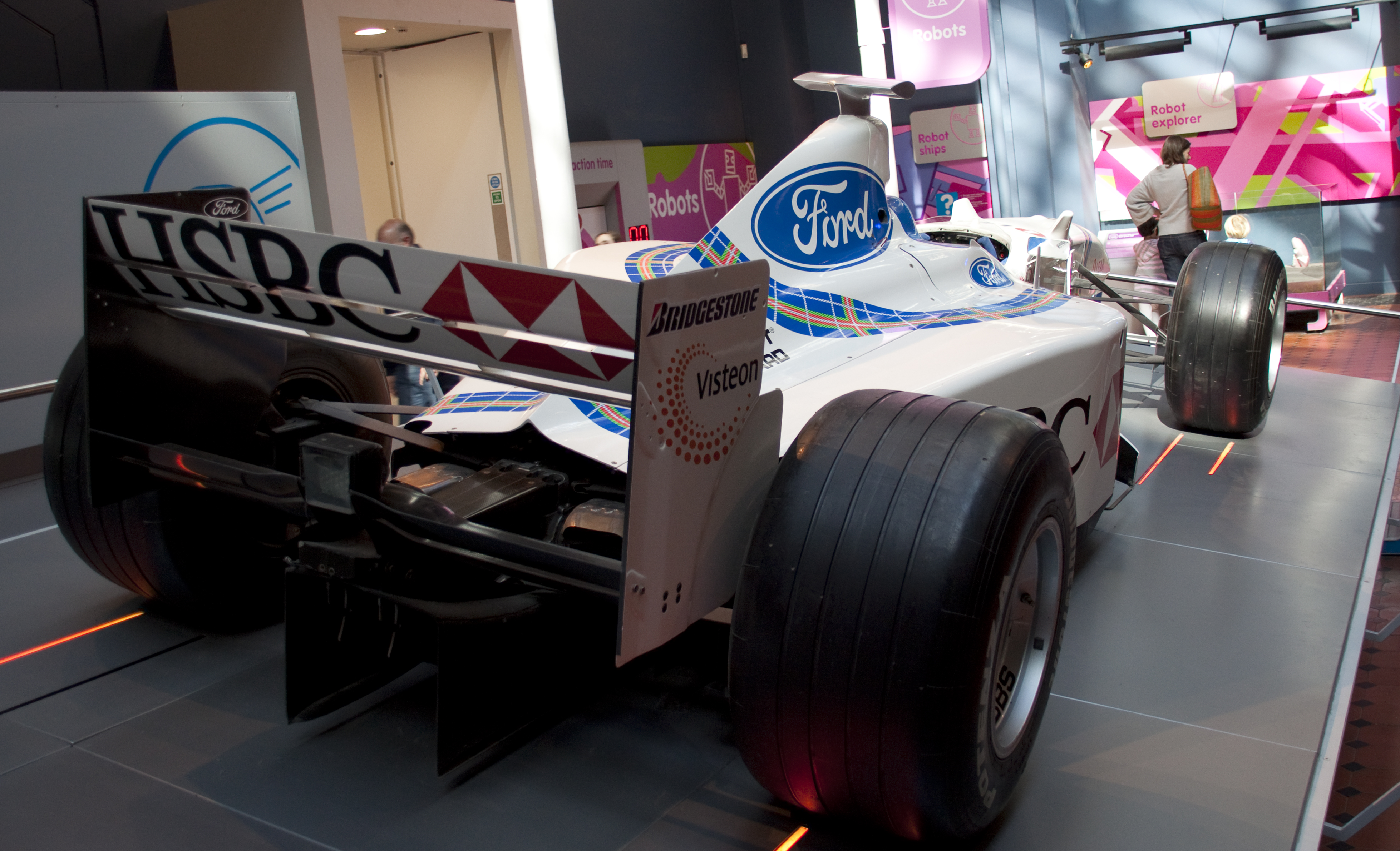 A Stewart SF02 on display at the National Museum of Scotland.